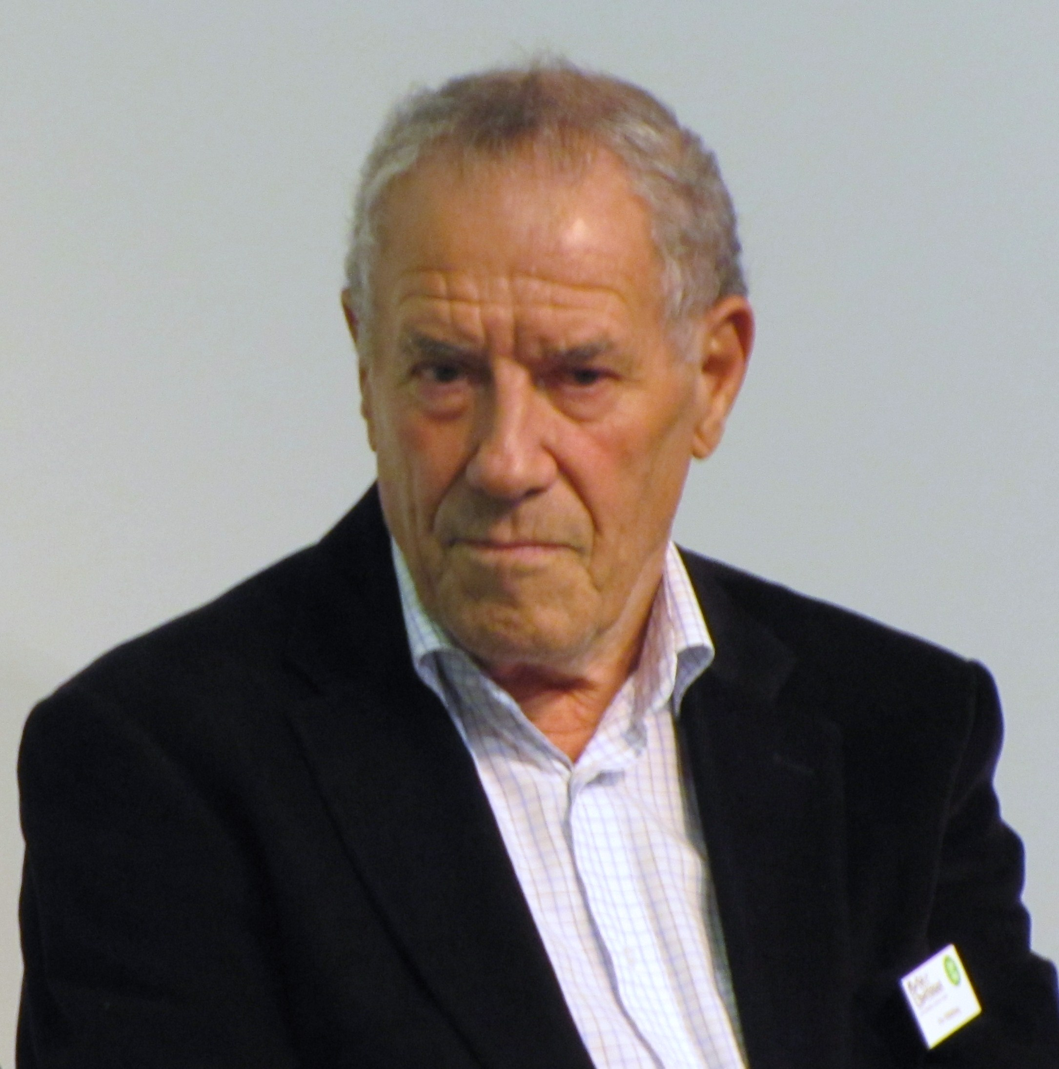 Swedish author Per Wästberg, member of the Swedish Academy, at the 2010 Göteborg Book Fair.